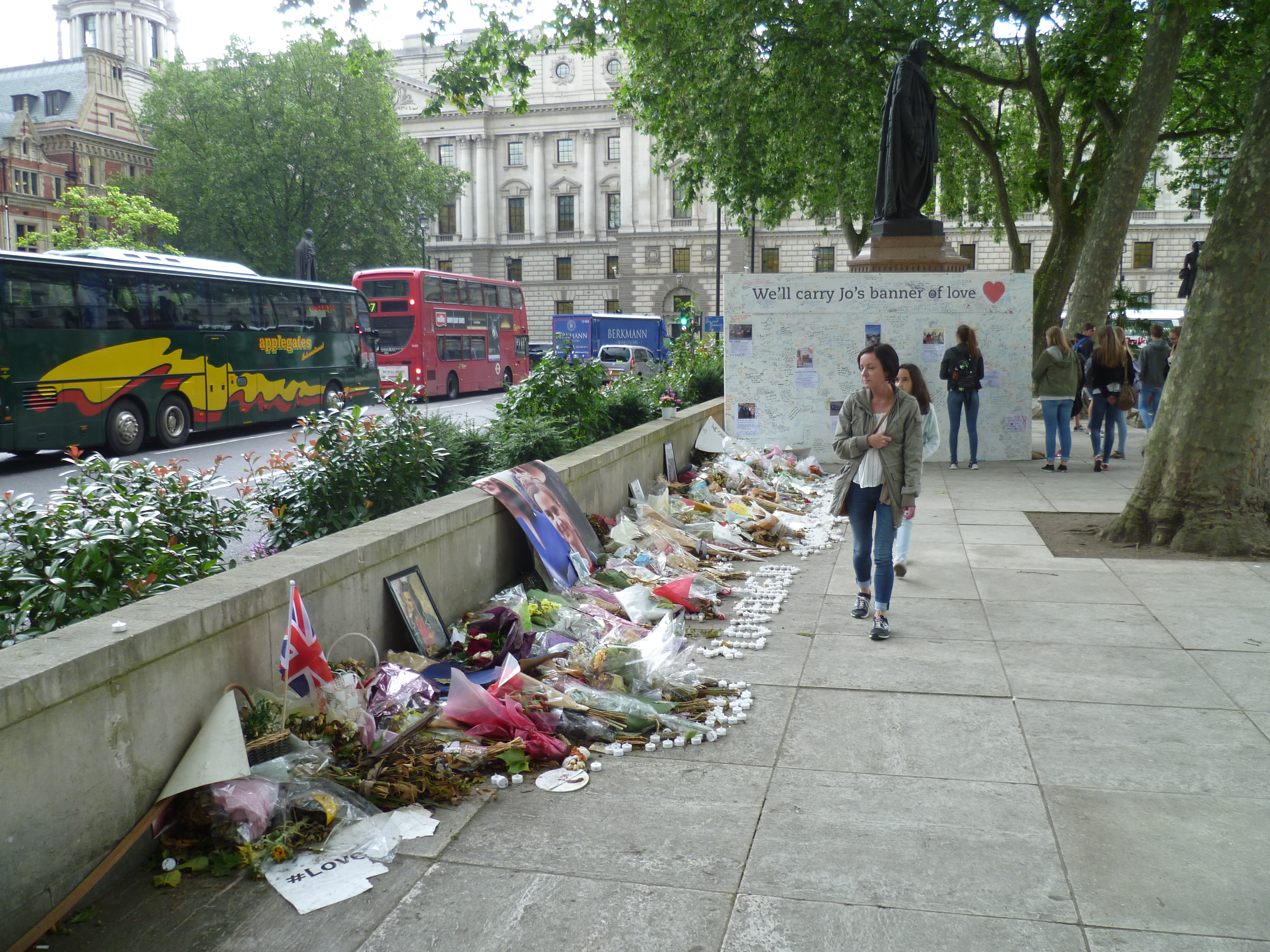 Jo Cox memorial Parliament Square, London